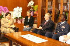 Tom Schieffer, Ambassador to Japan and Edward A. Rice, Jr., Commander of the United States Forces Japan, met with Yoshimasa Hayashi, Minister of Defense, at the Ministry of Defense in Shinjuku Ward, Tōkyō Metropolis, on August 12, 2008.